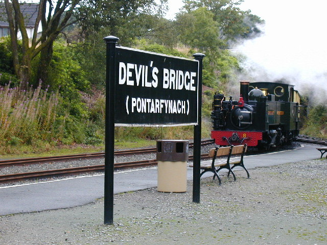 Devil's Bridge railway station, Devil's Bridge, Ceredigion/Sir Ceredigion, Wales. End-of-the-line for the Vale of Rheidol Railway from Aberystwyth: tank engine? arriving. Travellers can visit the falls or just the cafe.